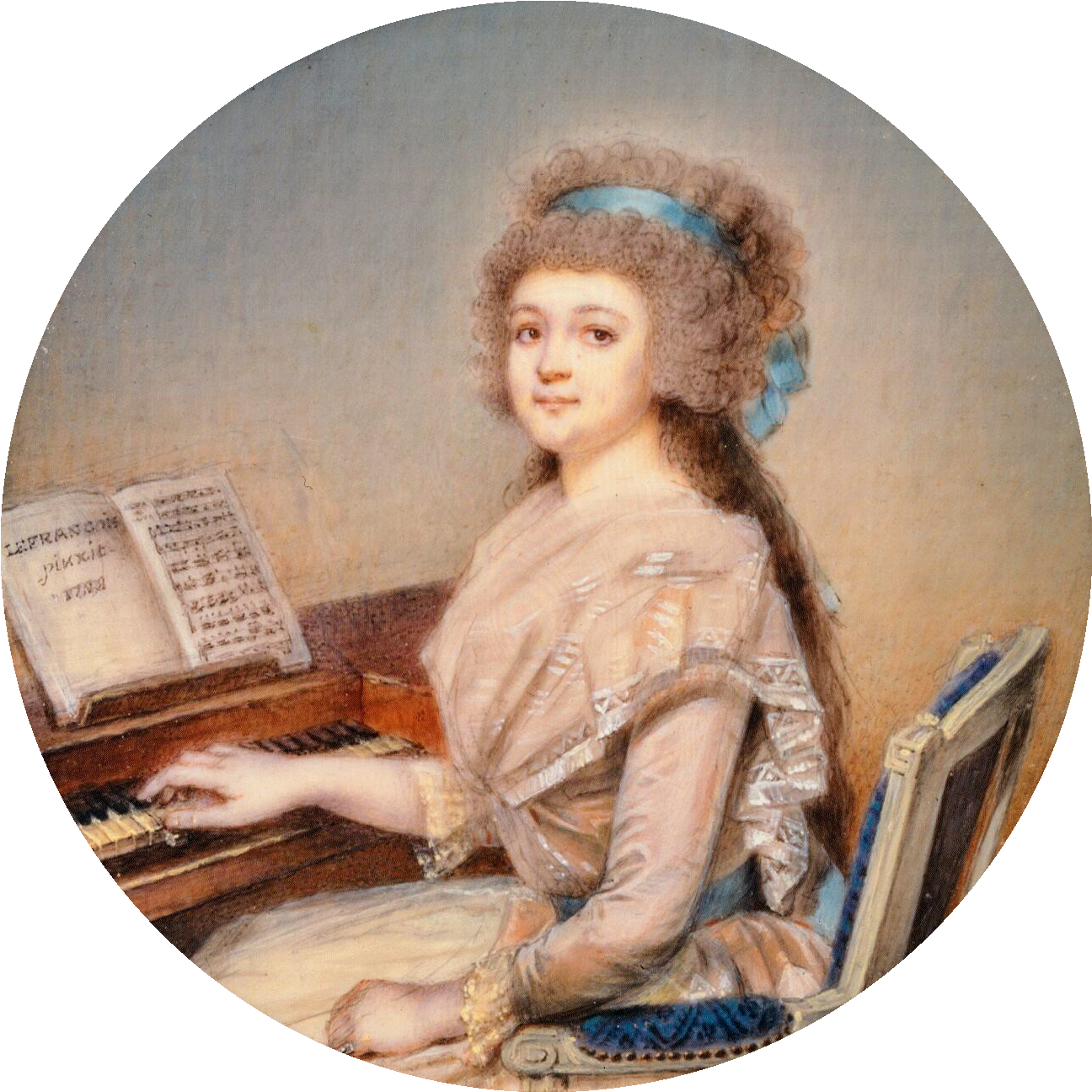 Portrait of Anne de Balbi, by Nicolas Le François.